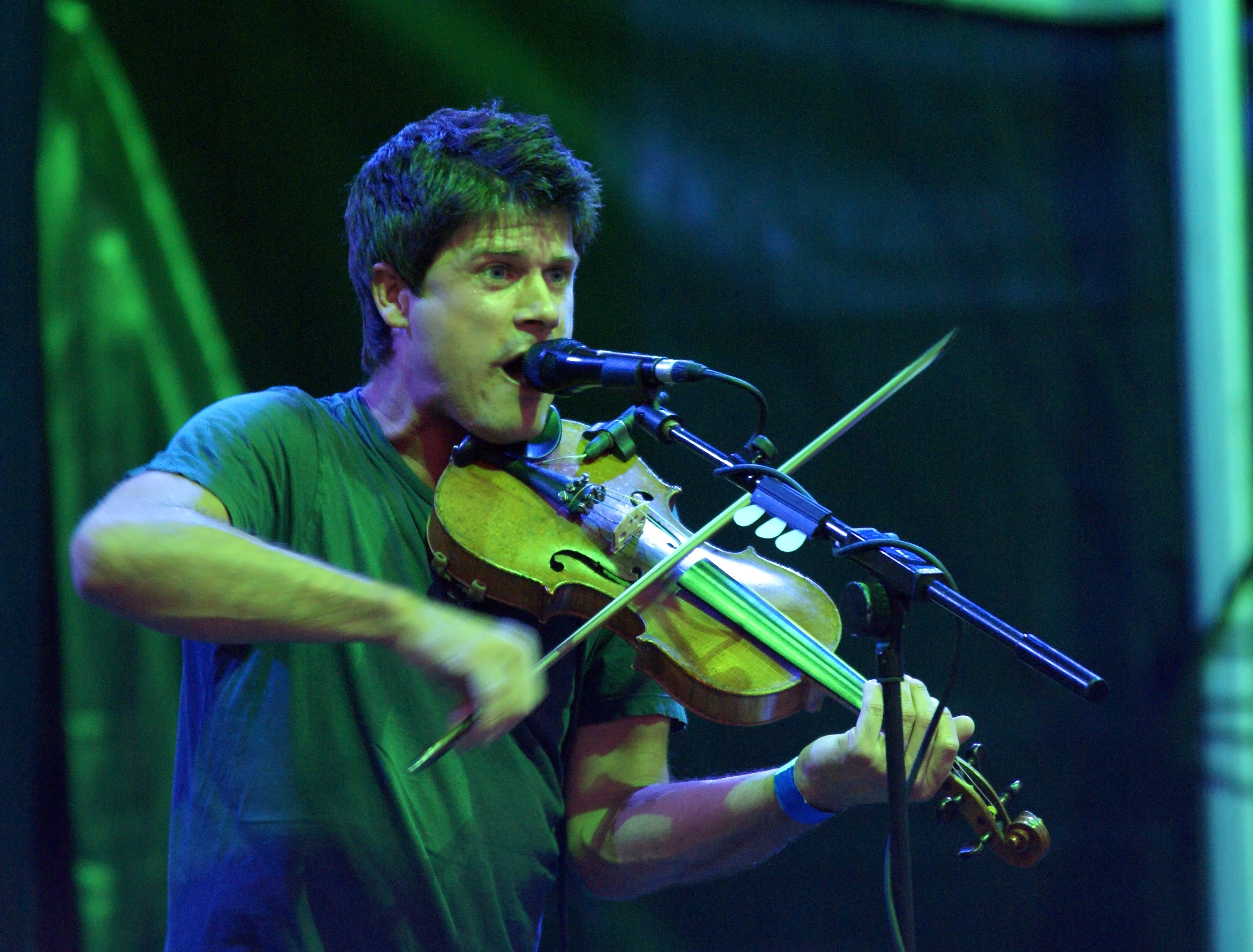 Folk singer Seth Lakeman at the 2008 Folk by the Oak Festival at Hatfield House, England